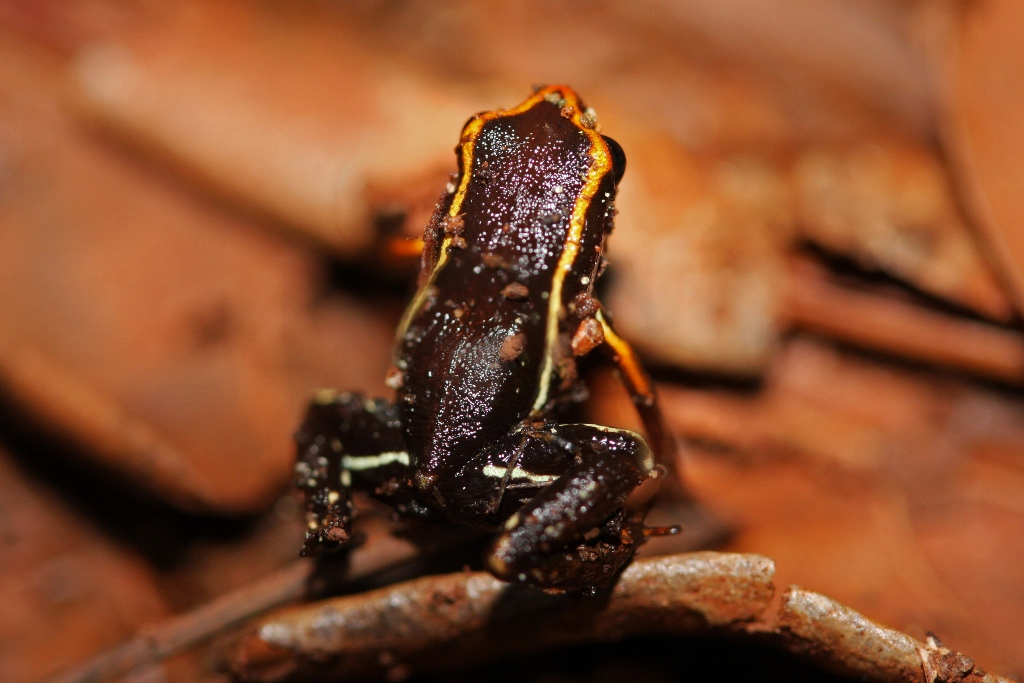 Heard calling and then found in the leaf litter, within Alejandro de Humboldt National Park.